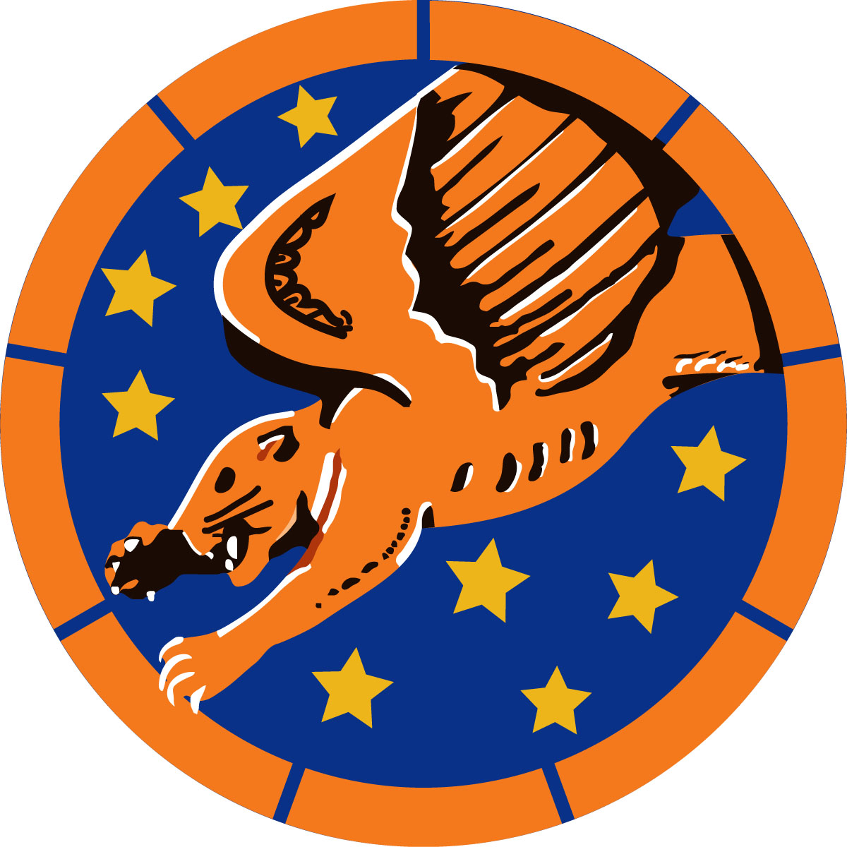 99th Fighter Squadron (The Tuskegee Airmen) emblem (clr)